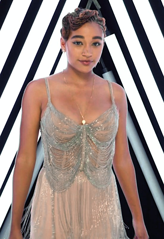 Amandla Stenberg at a video promotional for the Oscars 2019